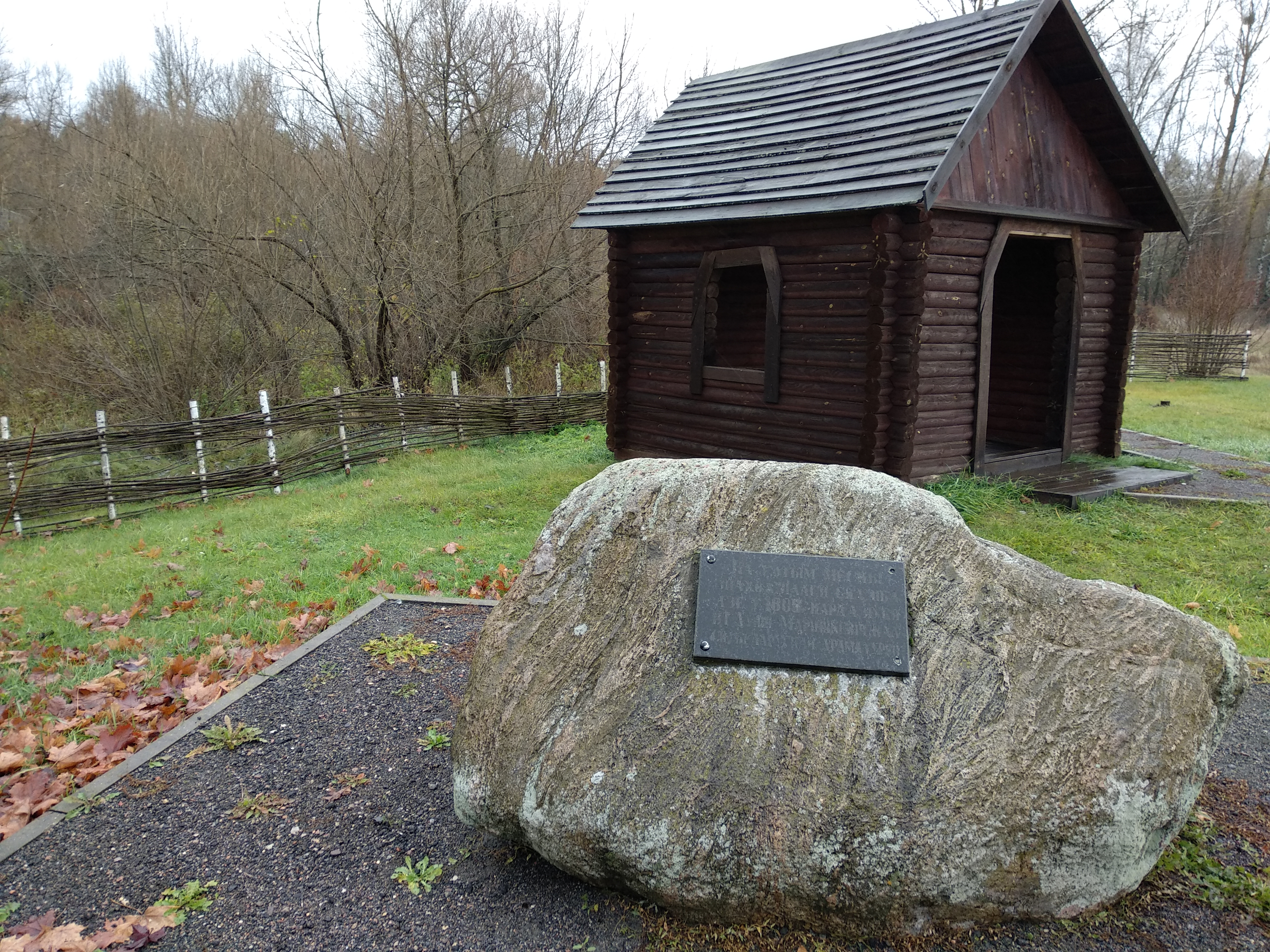 birthplace of Vintsent Dunin-Martsinkyevich